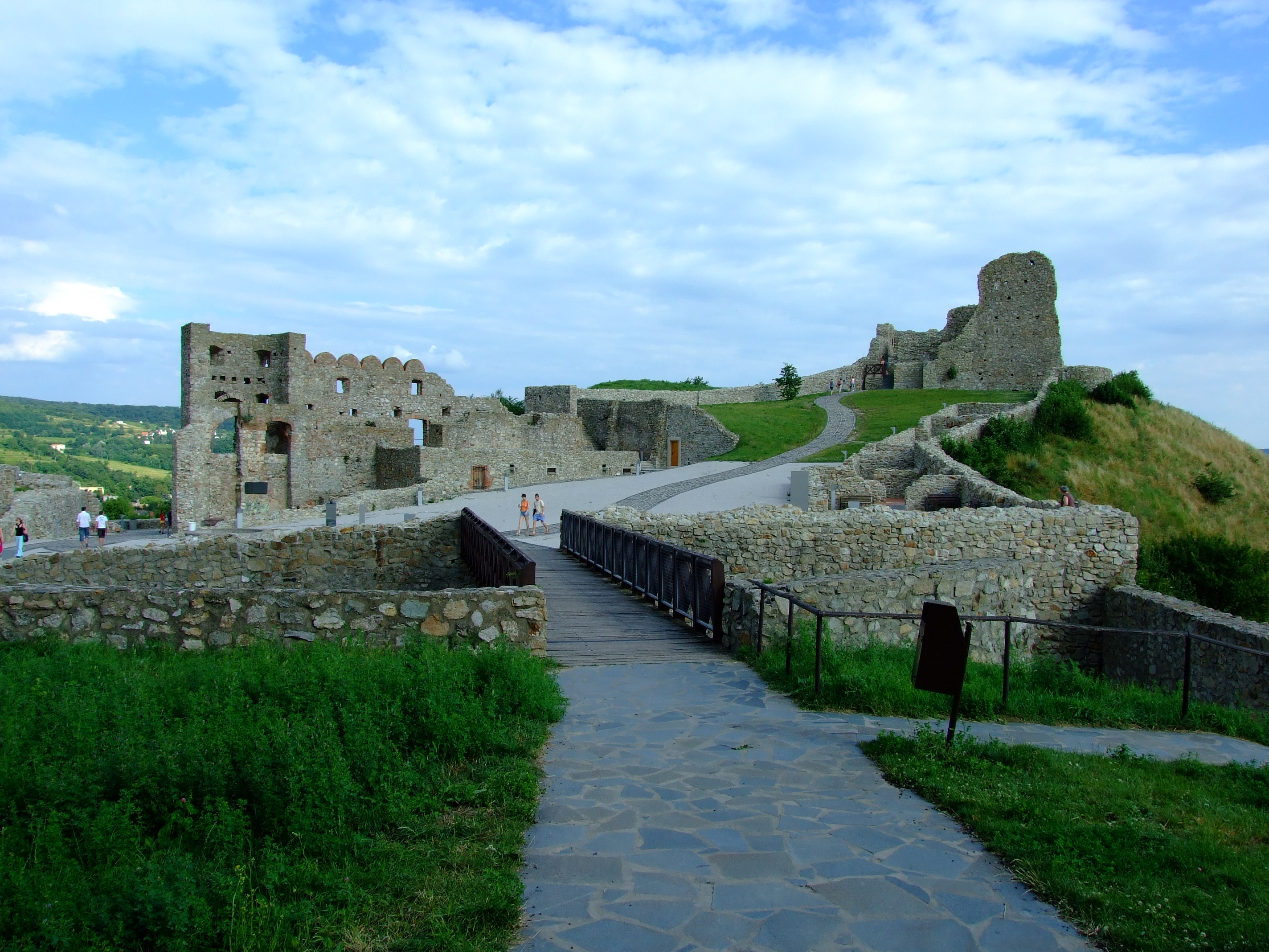 Devín castle in the same-named neighborhood of Bratislava, SKhelp